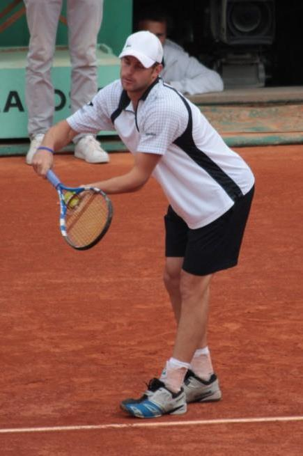 Andy Roddick at 2009 Roland Garros, Paris, France